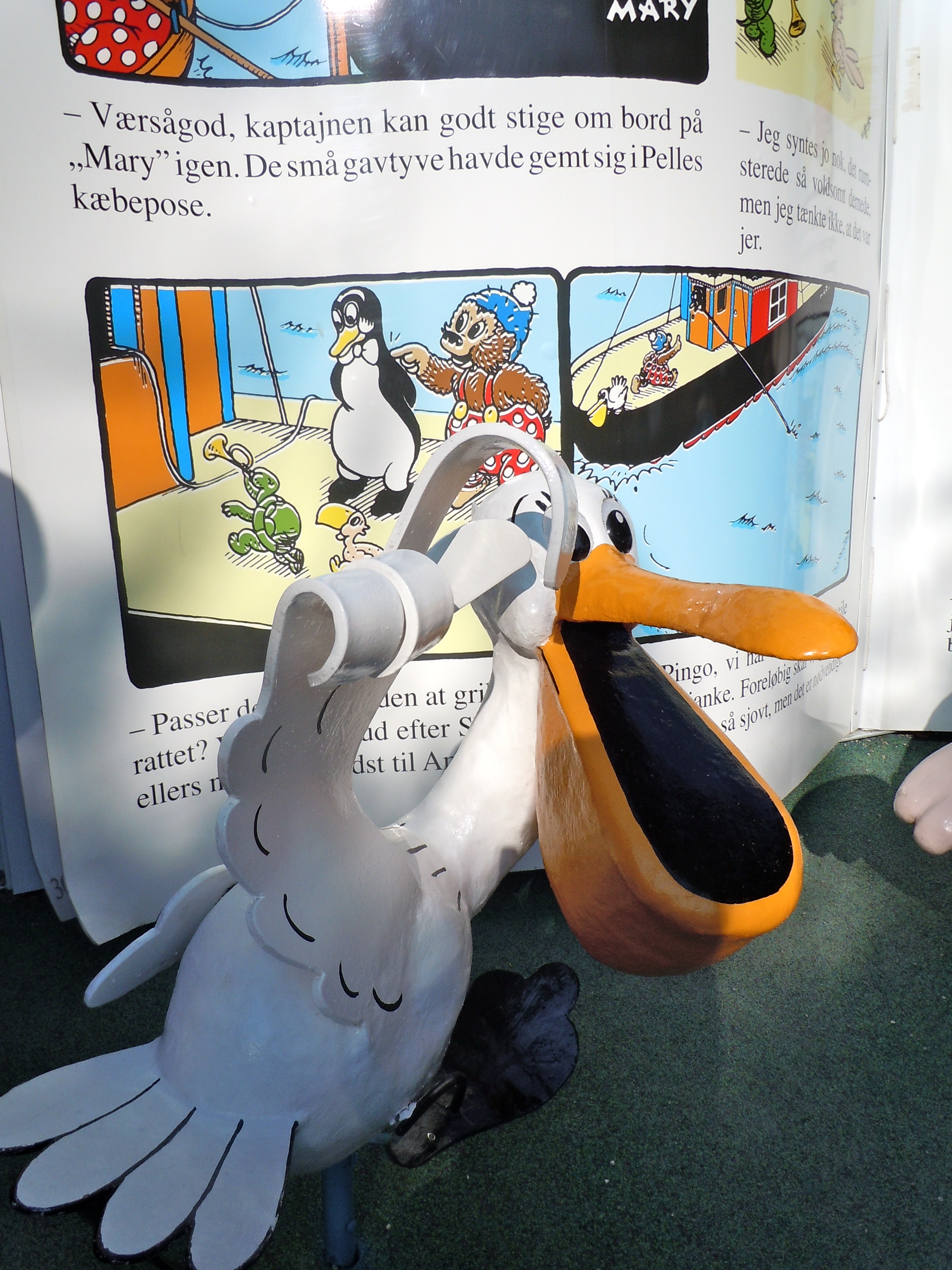 Tivoli Gardens. Second oldest amusement park in the world still operating. Copenhagen, Denmark. 6.30.10.